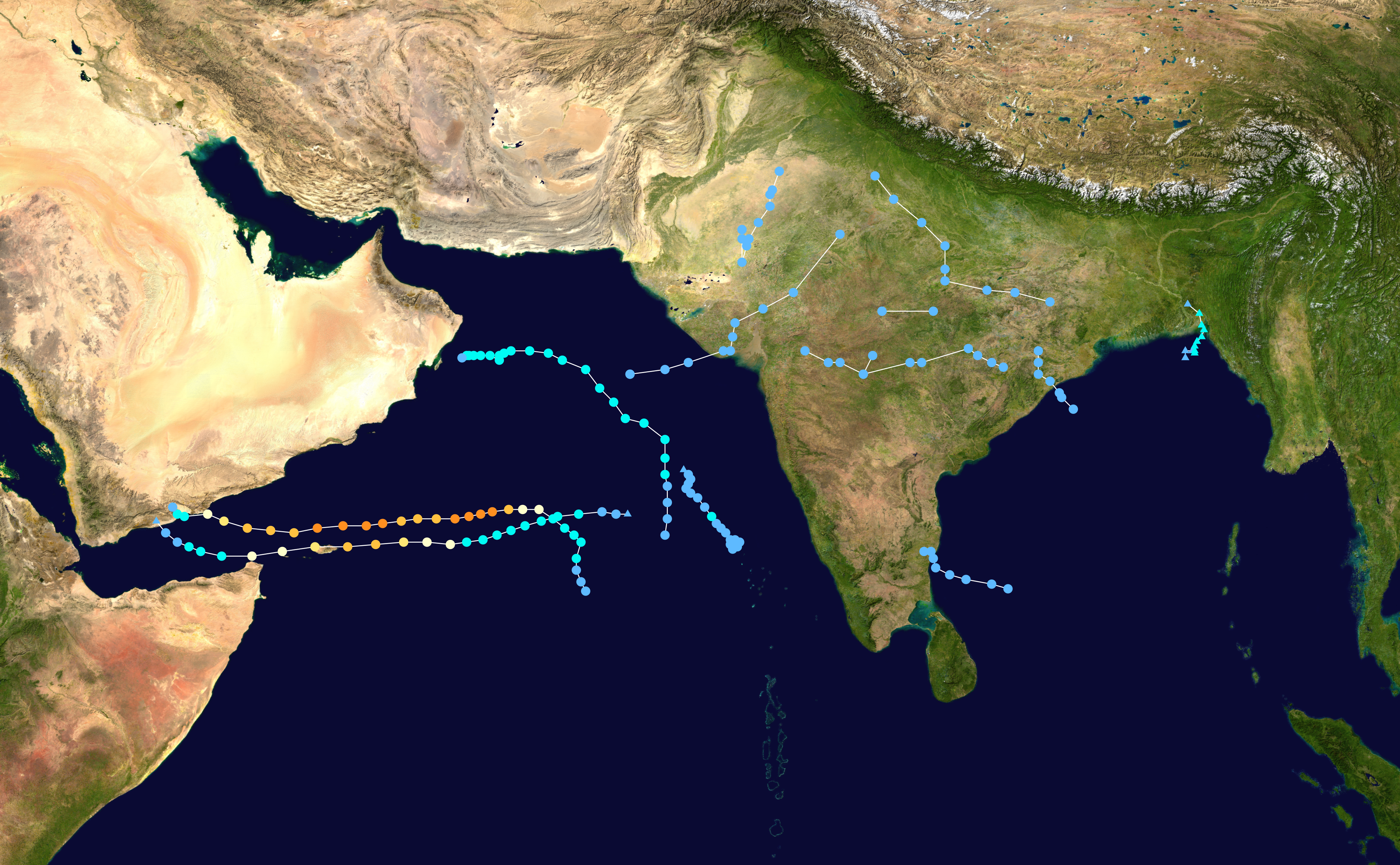 This map shows the tracks of all tropical cyclones in the 2015 North Indian Ocean cyclone season. The points show the location of each storm at 6-hour intervals. The colour represents the storm's maximum sustained wind speeds as classified in the Saffir-Simpson Hurricane Scale (see below), and the shape of the data points represent the type of the storm. Map generation parameters: --xmin 45 --xmax 100 Saffir–Simpson scale Tropical depression≤38 mph≤62 km/h Category 3111–129 mph178–208 km/h Tropical storm39–73 mph63–118 km/h Category 4130–156 mph209–251 km/h Category 174–95 mph119–153 km/h Category 5≥157 mph≥252 km/h Category 296–110 mph154–177 km/h Unknown Storm type Tropical cyclone Subtropical cyclone Extratropical cyclone / Remnant low / Tropical disturbance / Monsoon depression